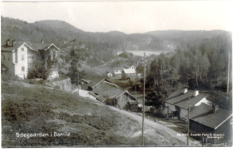 Ødegården in Bamble. Mine supervisor's house Dauxborg on the left, built 1875, later demolished. The farm Ødegården down in the valley.